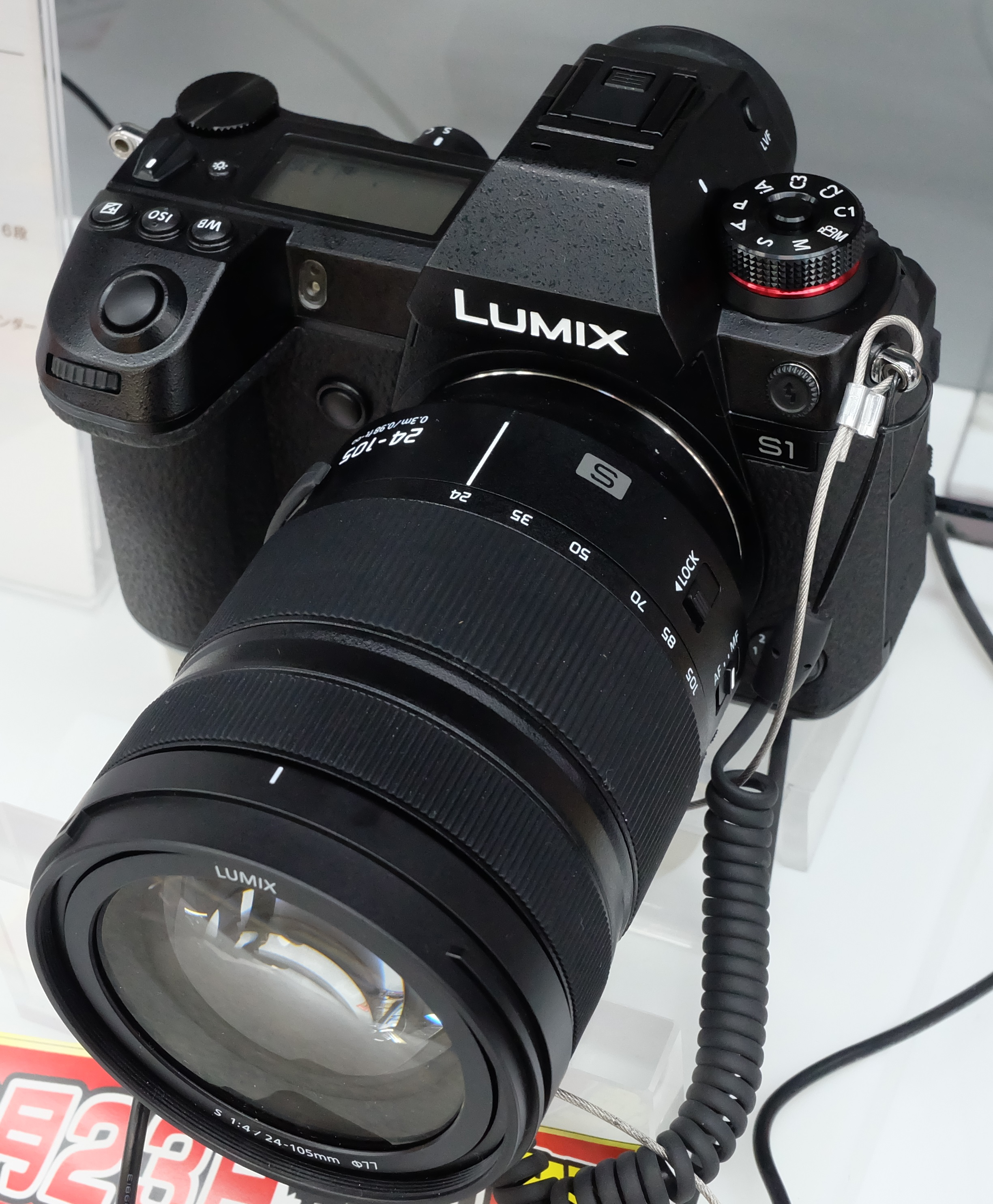 Panasonic Lumix DC-S1 (photo taken at Yodobashi Camera)